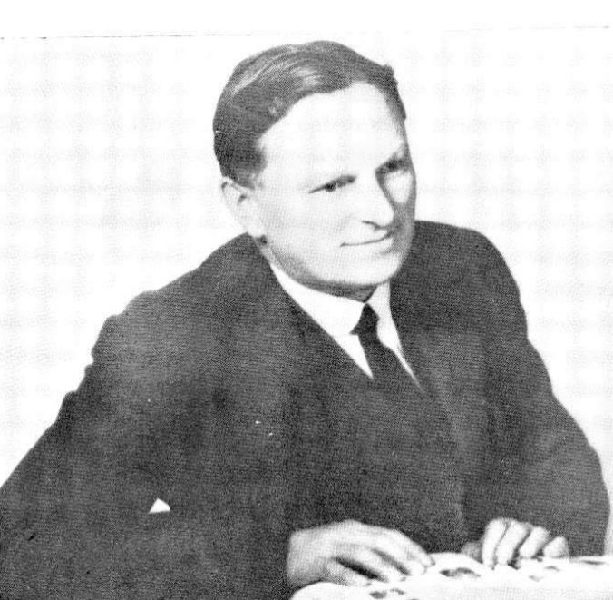 Reinhold Friedrich Alfred Hoernlé, South African academic